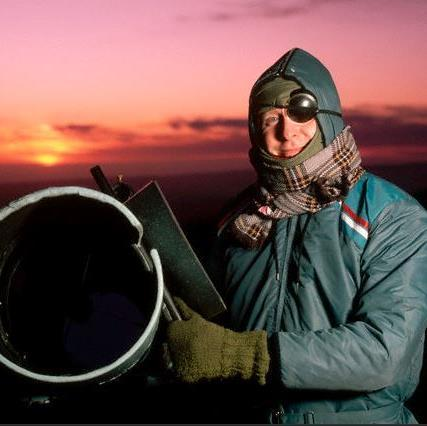 Comet discoverer Donald Machholz portrait